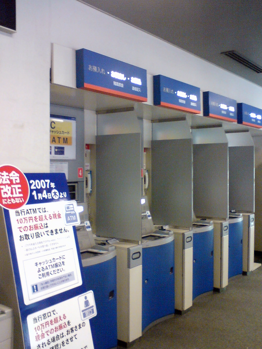 Mizuho Bank's automated teller machines in its headoffice.